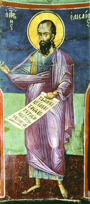 Saint Yelisey